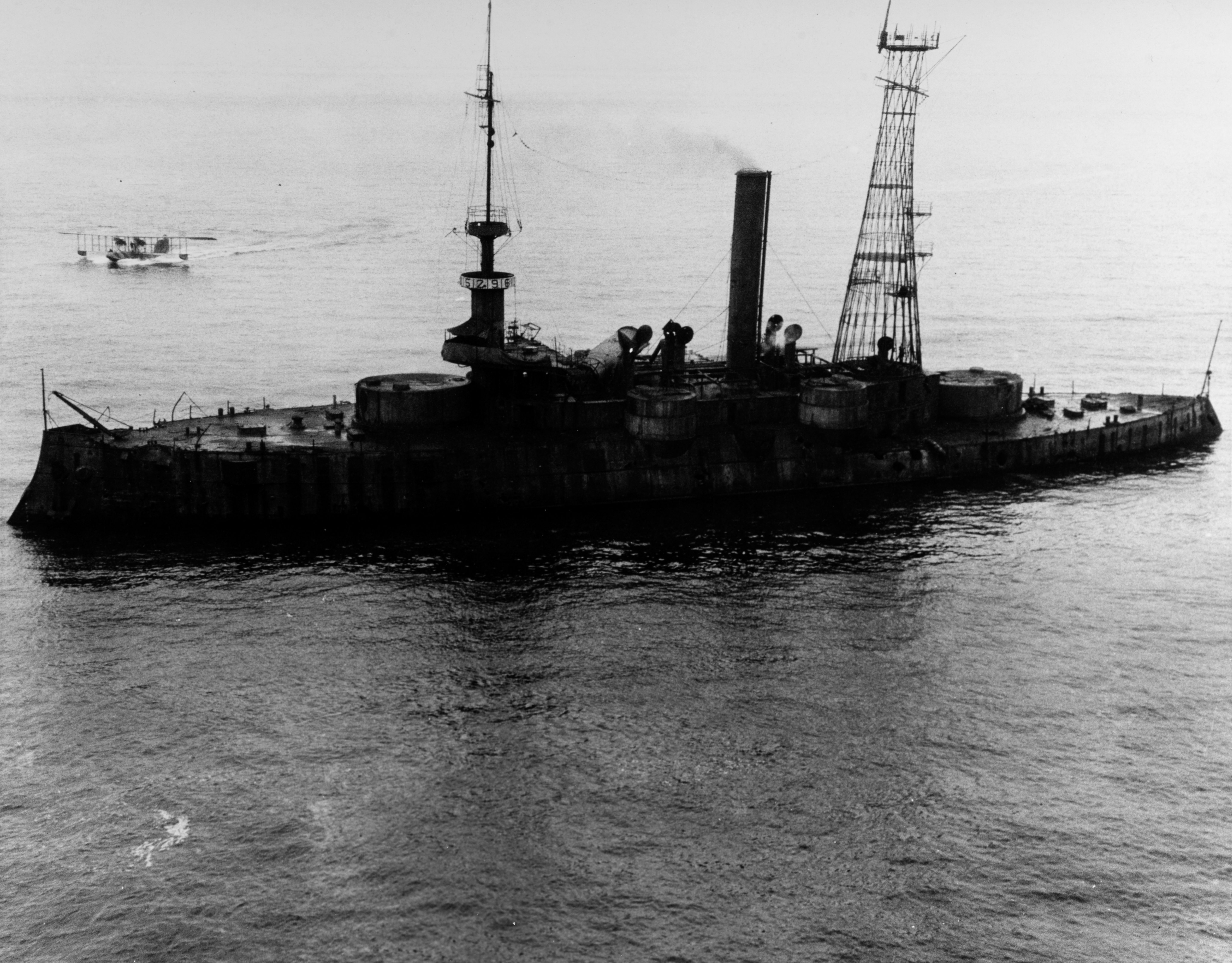 (ex-USS Iowa, Battleship # 4) Damaged after use as a radio-controlled target during Fleet gunnery practice off Panama, 22 March 1923. Note shell holes in the ship's hull side, in line with the main mast, collapsed forward smokestack, and other damage to her superstructure. Also note numbers painted around her lower foretop, probably to indicate bearings, and F5L flying boat taxiing in the left background. The target ship was sunk as a result of damage received in this exercise. Donation of Franklin Moran, 1967. U.S. Naval History and Heritage Command Photograph.